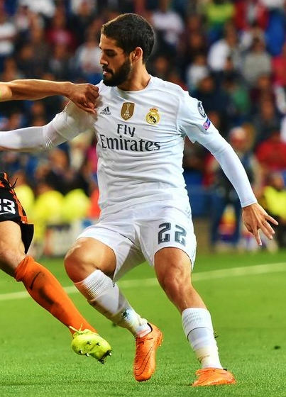 Isco 2015